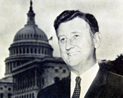 Lawrence H. Fountain, US Representative from North Carolina